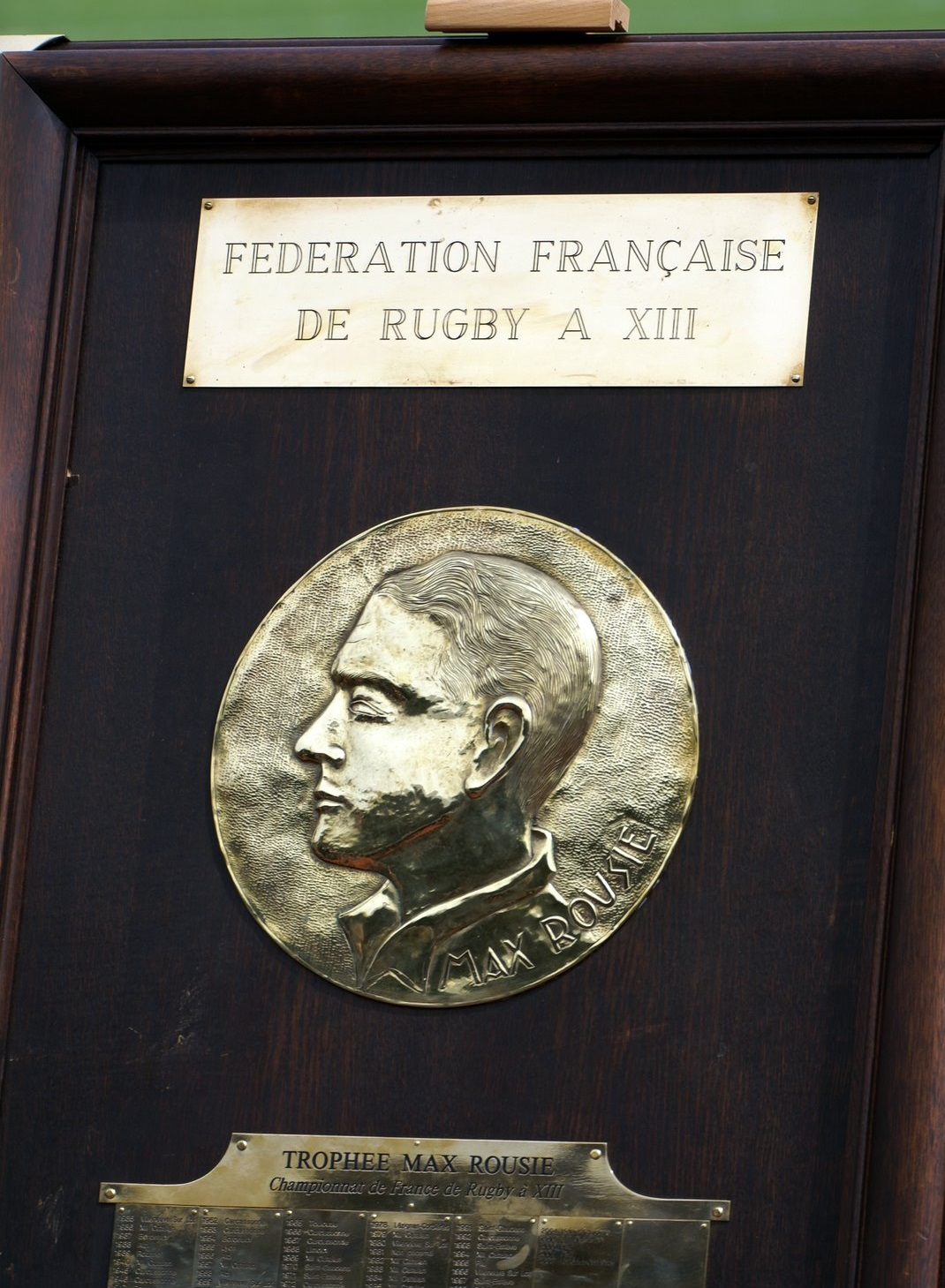 Bouclier Max Rousié